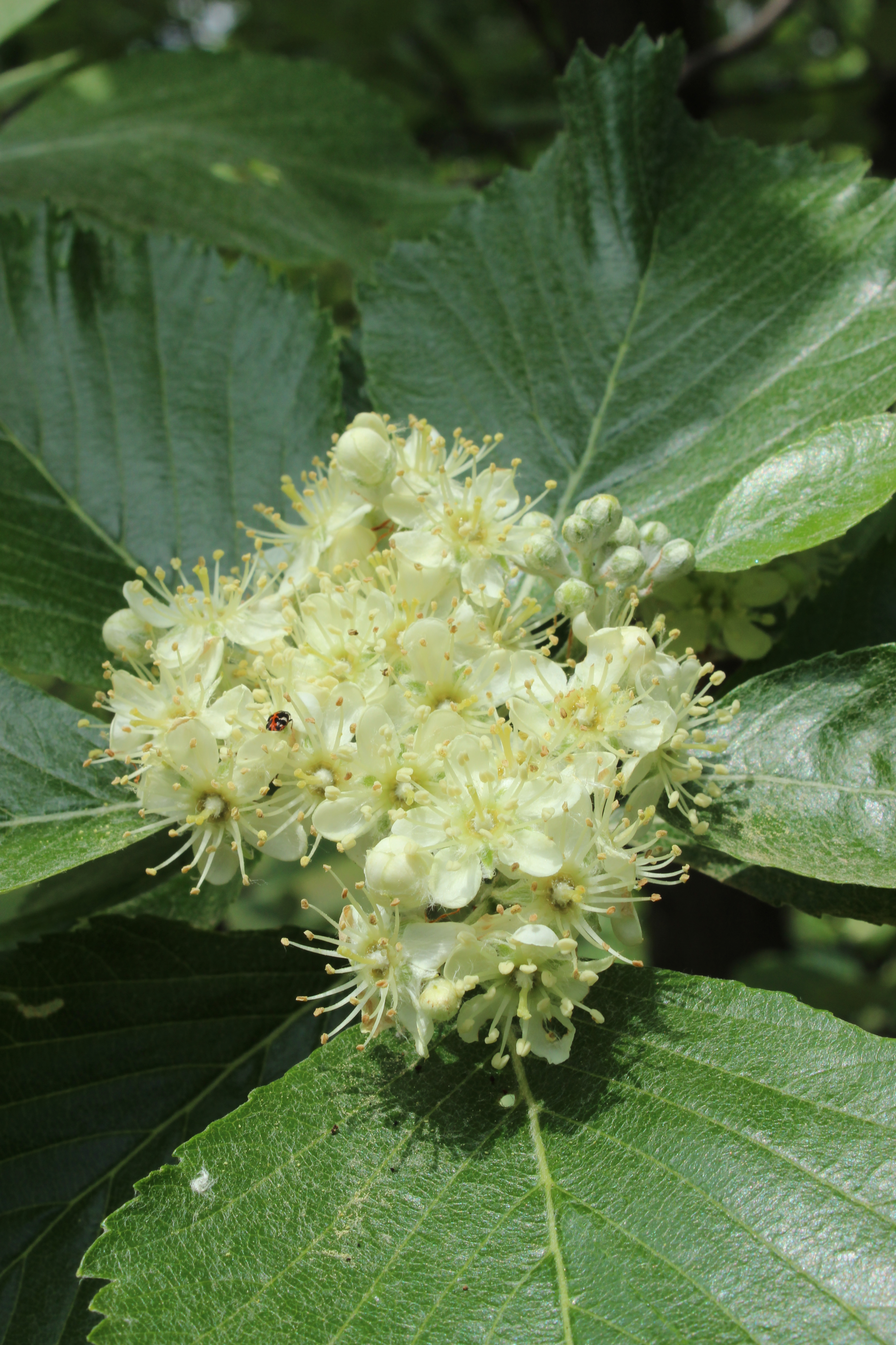 Sorbus danubialis in the Botanical Garden of the University of Vienna.